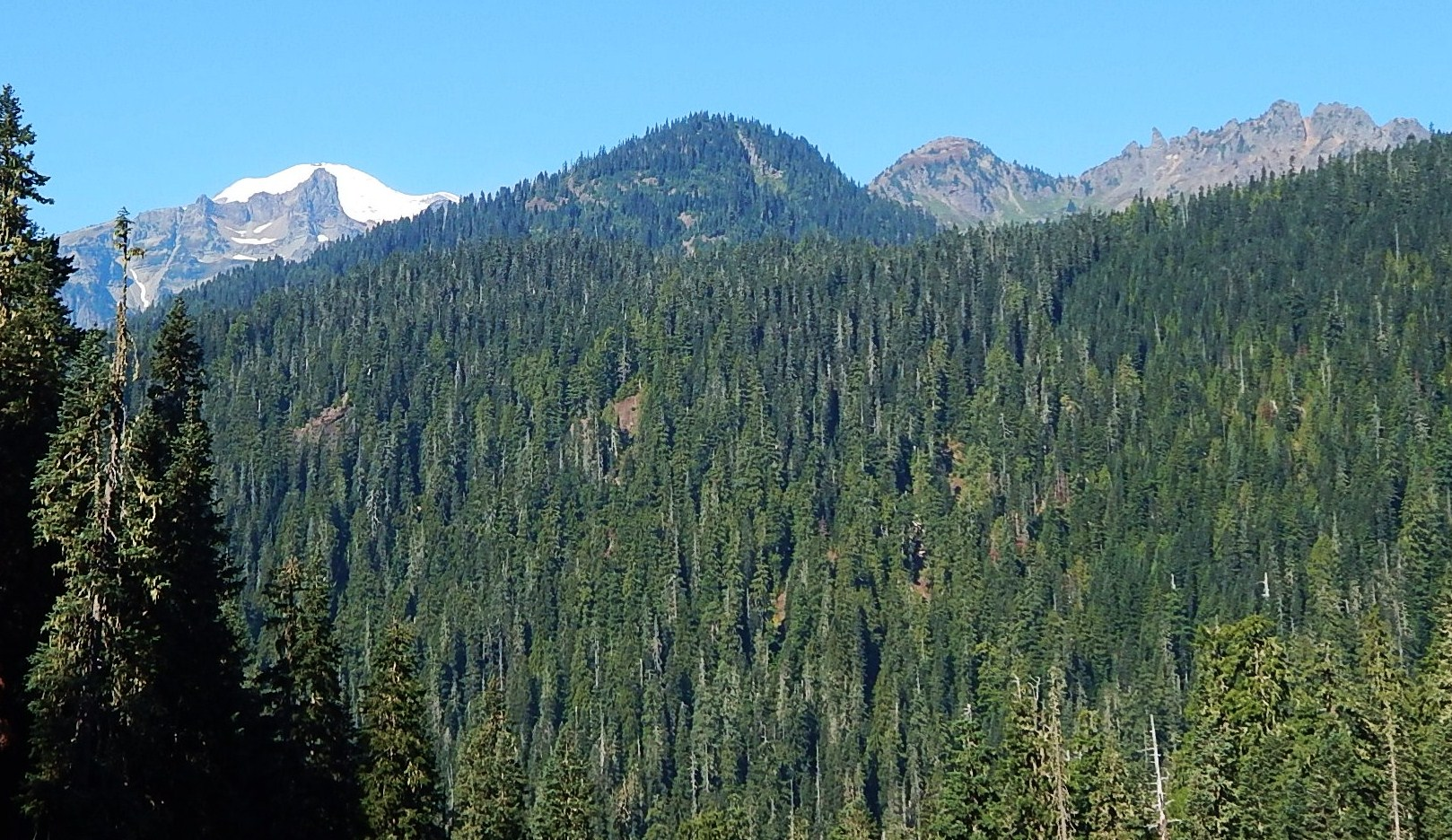 Buell Peak and Barrier Peak seen from Highway 123 in Mount Rainier National Park